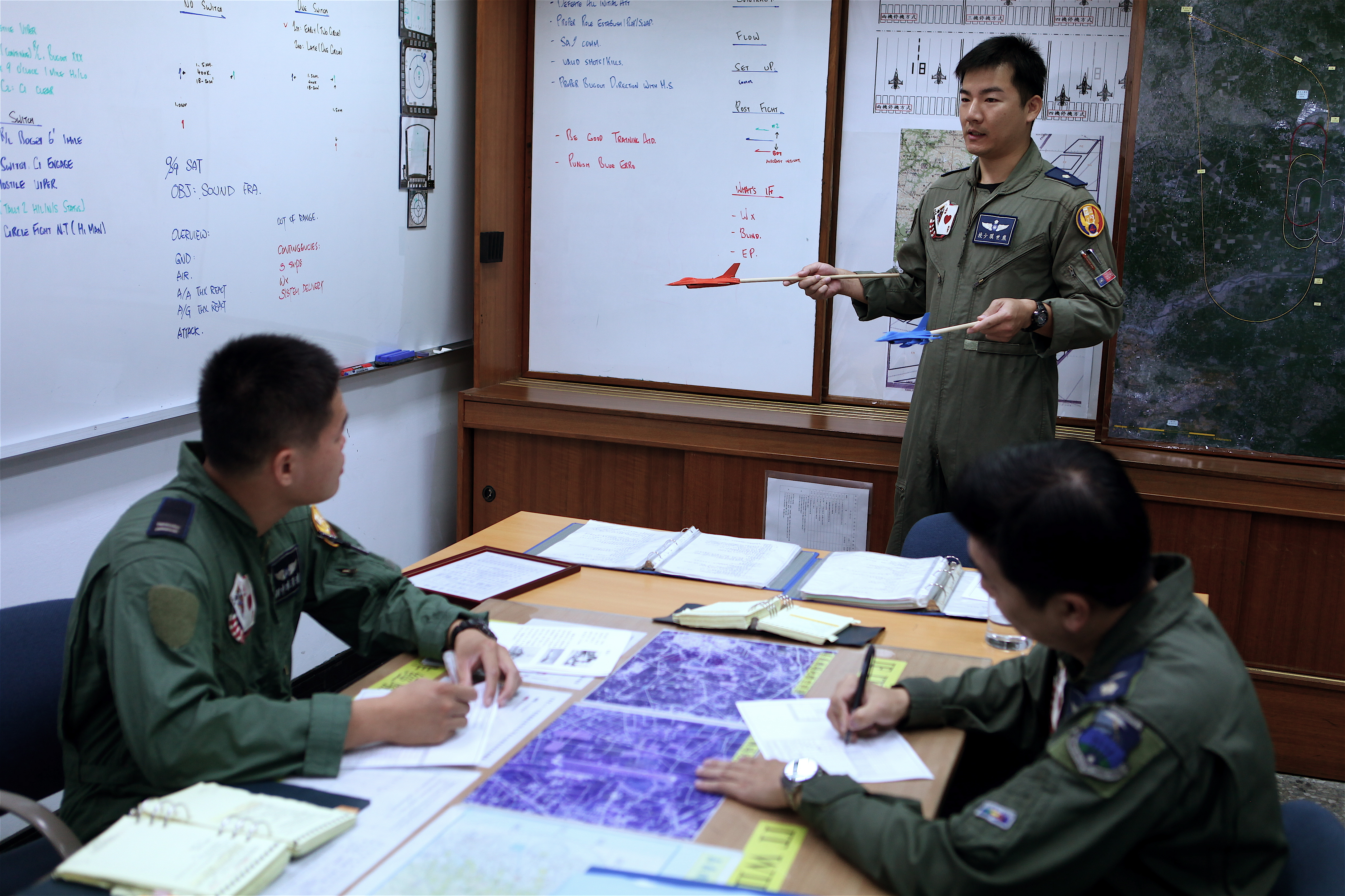 ROC Air Force pilots of the 455th Tactical Fighter Wing plan their day's mission at the Chiayi Airbase in Southern Taiwan. Many of Taiwan's pilots receive training in the United States.